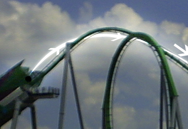 A highlighted zero-g roll